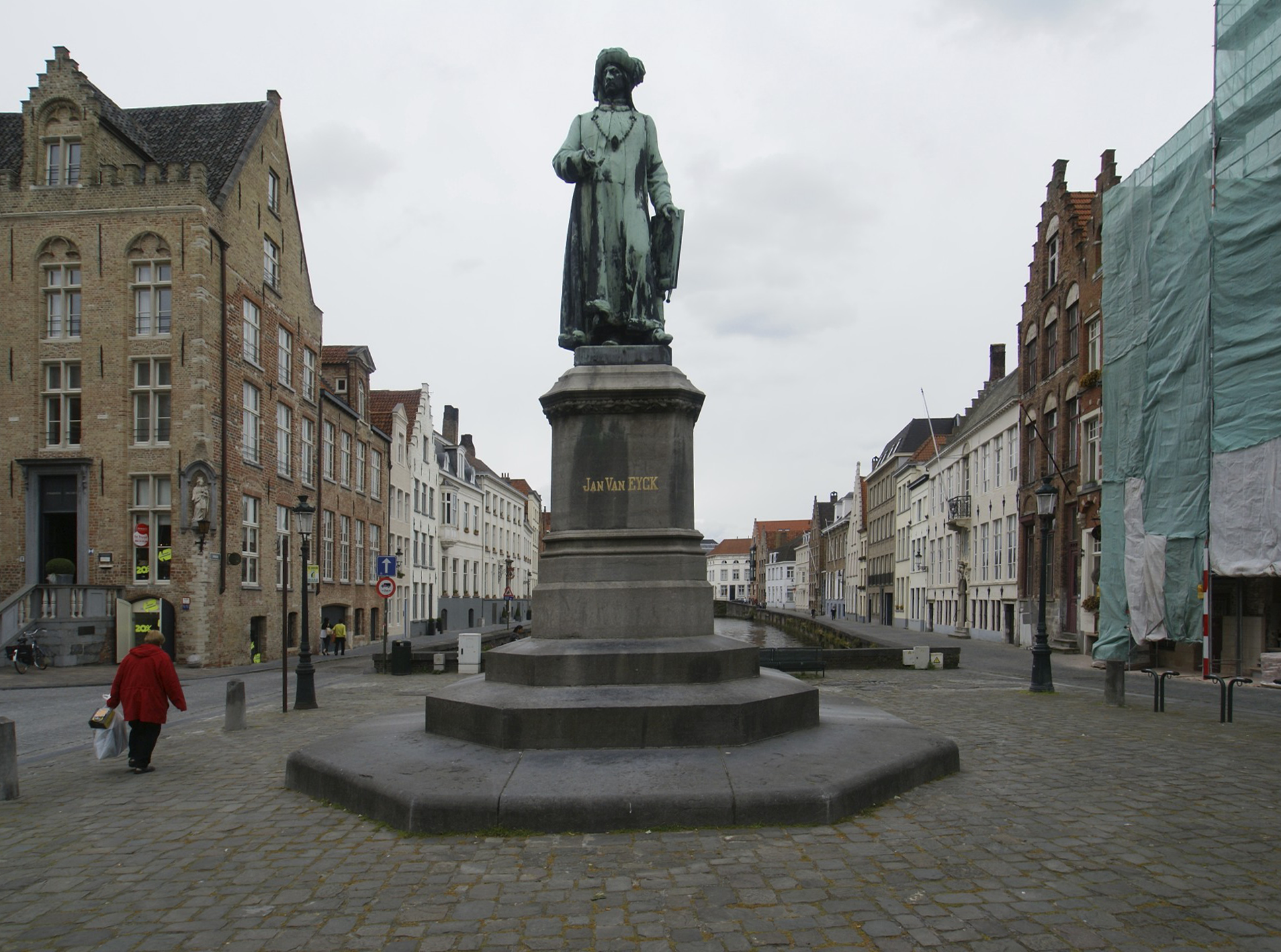 Bruges (Belgium): Jan van Eyck square with statue of the painter Jan van Eyck